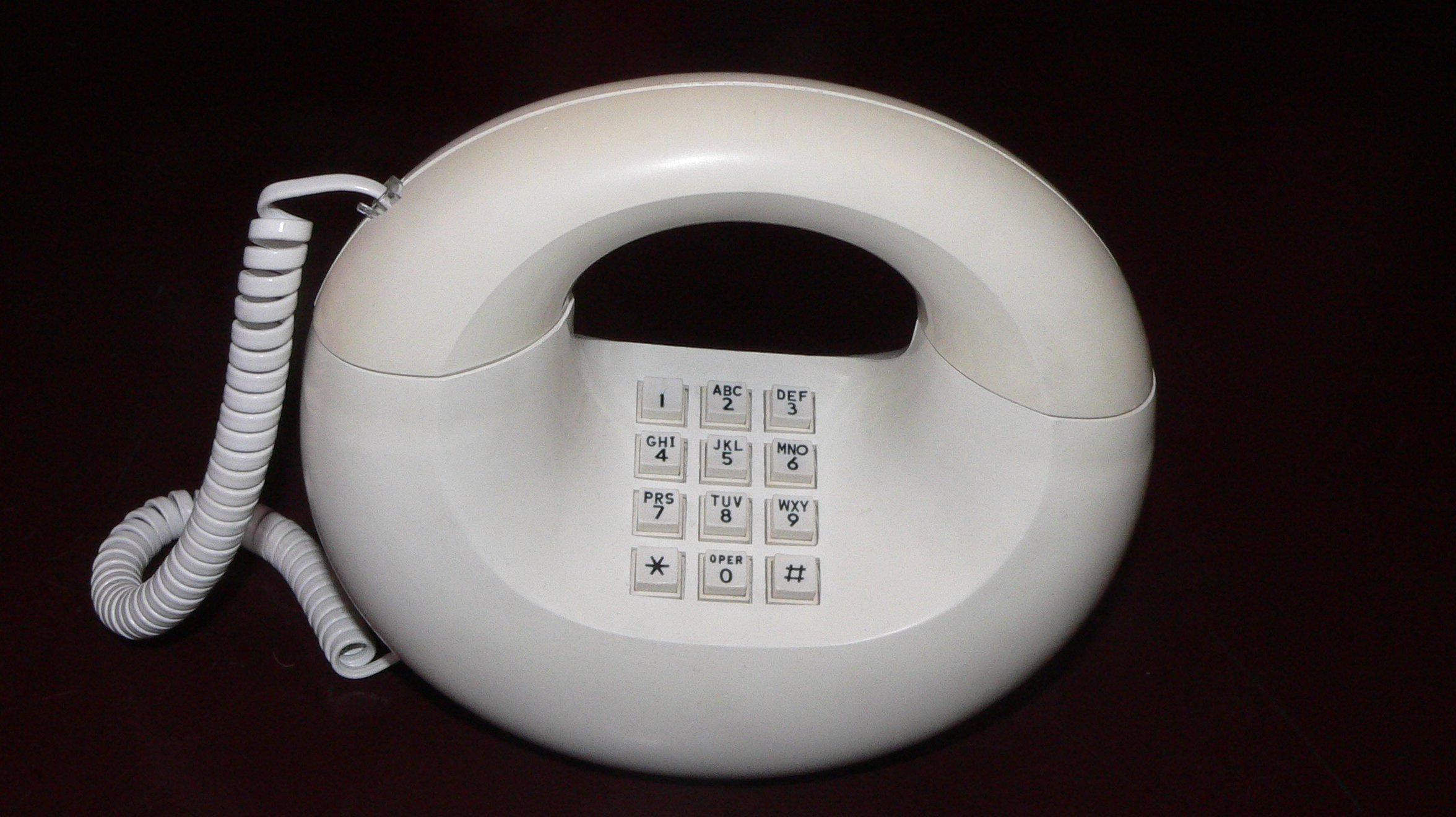 Telephone from the 60s